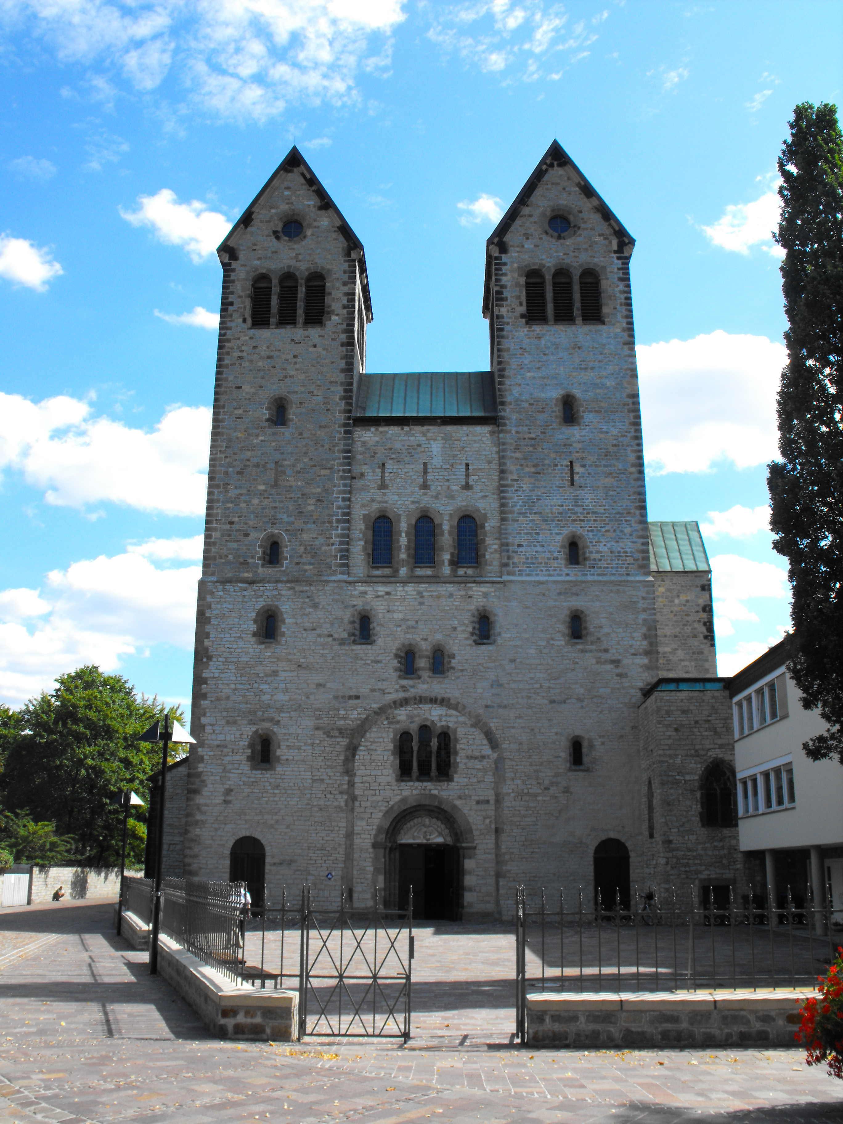 Abdinghofkirche, Paderborn, Germany